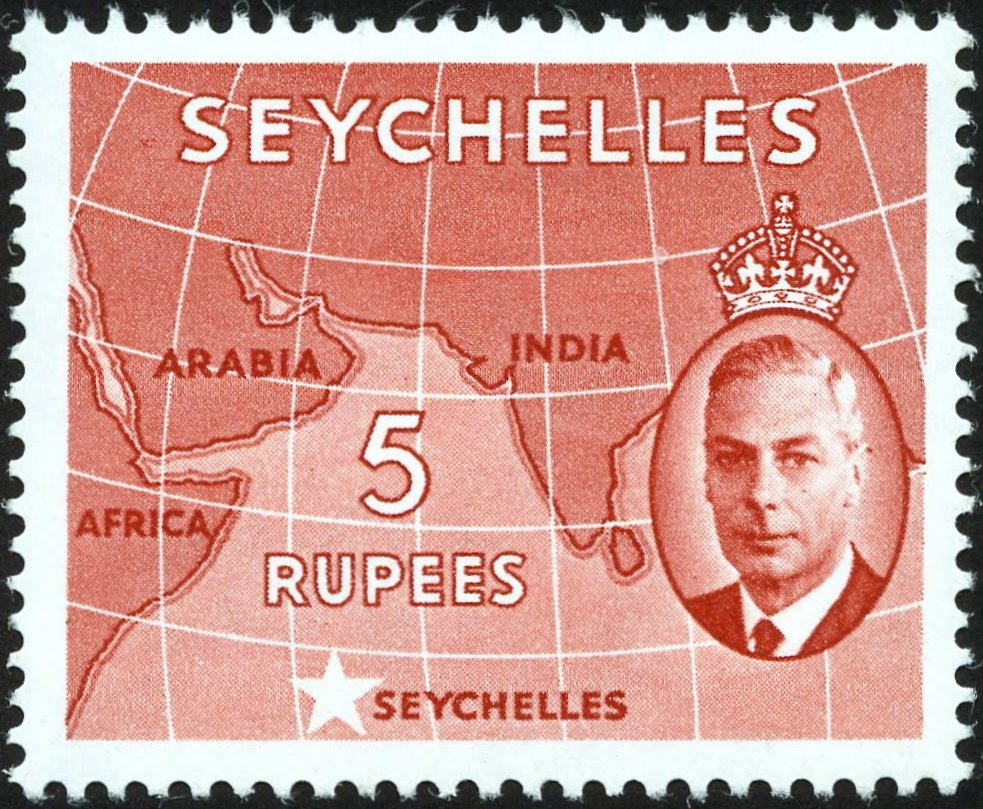 Seychelles 5R stamp 1952.